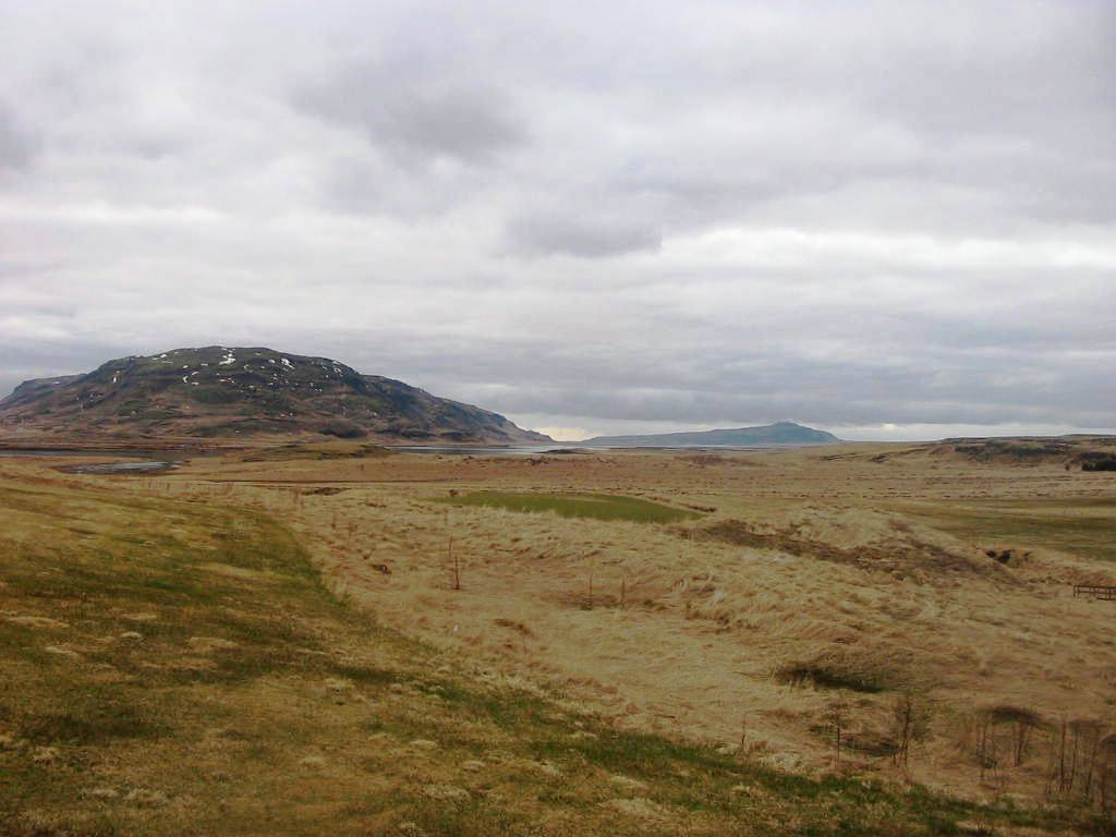 Spring panorama of Skálholt area (from the point next to the church)